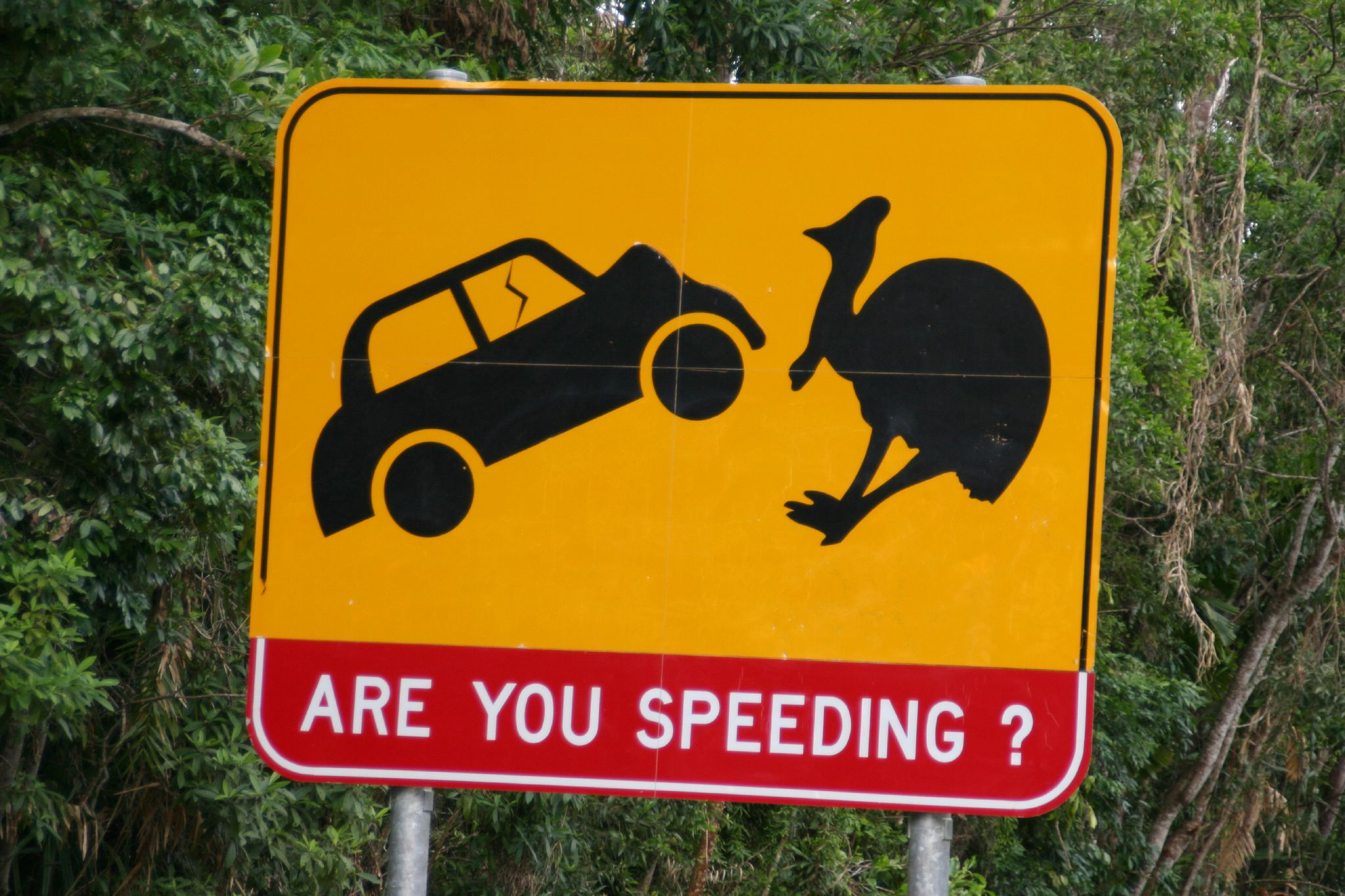 Cassowary warning sign